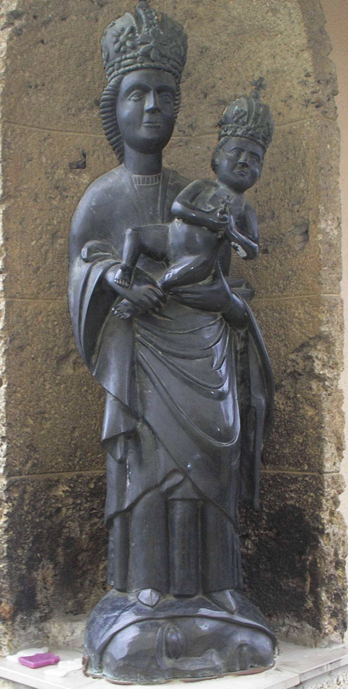 The Statue of Blessed Virgin Mary and Jesus, Marija Bistrica, Croatia